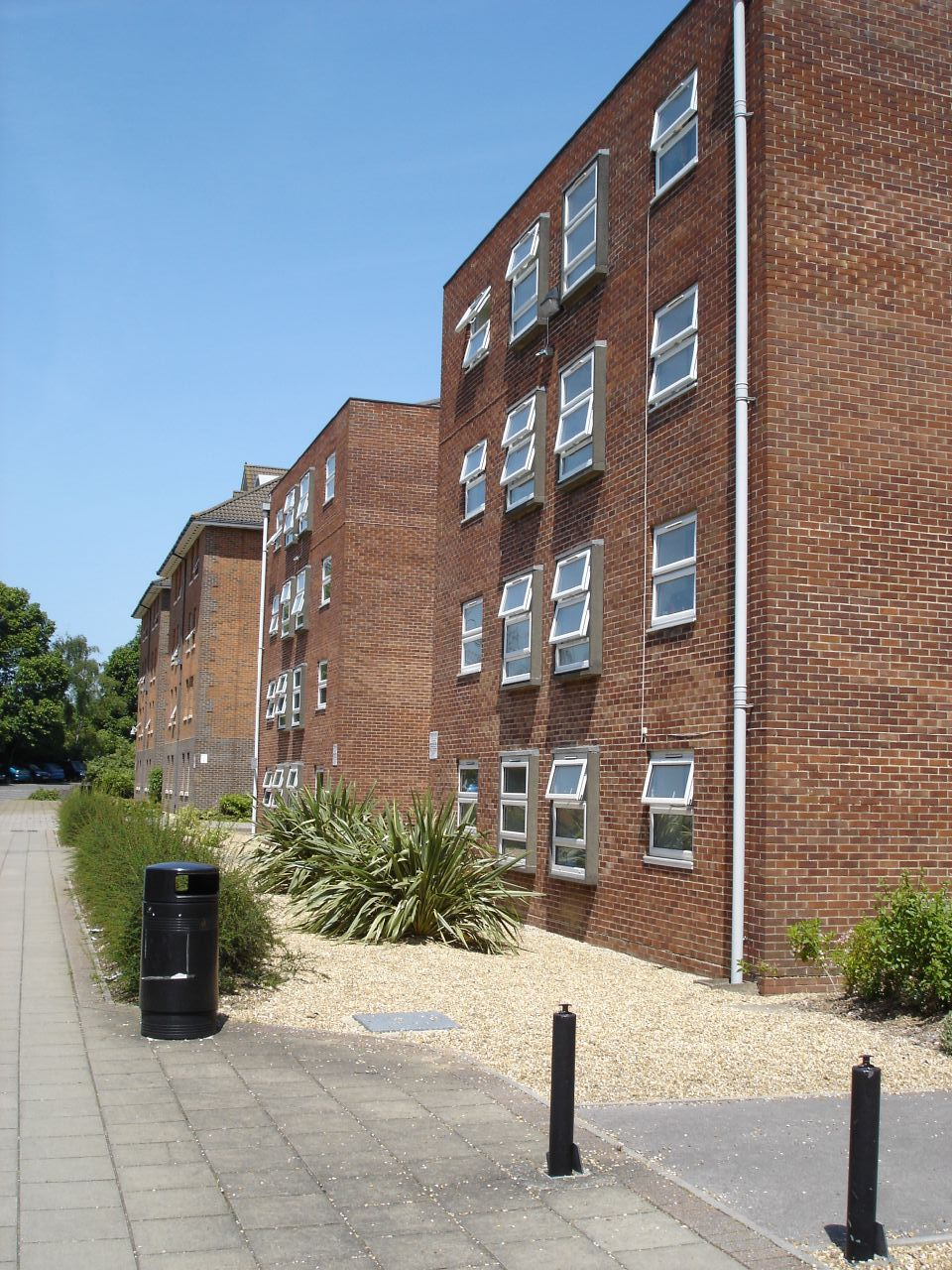 A photograph of the Montefiore House halls of residence for Southampton University, Southampton, UK. The building in the photograph is Block F, part of Montefiore 2.